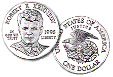 1998 Robert Kennedy Silver Dollar.